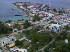 General view of Honiara, capital of the Solomon Islands